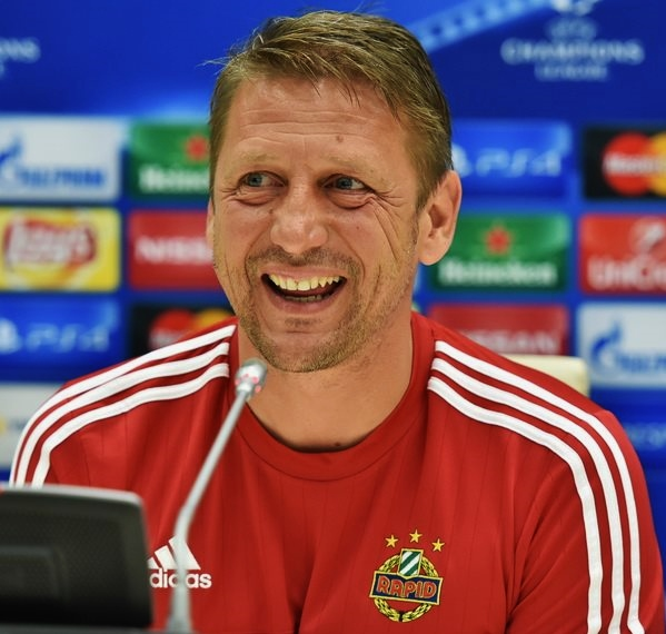 Zoran Barisic